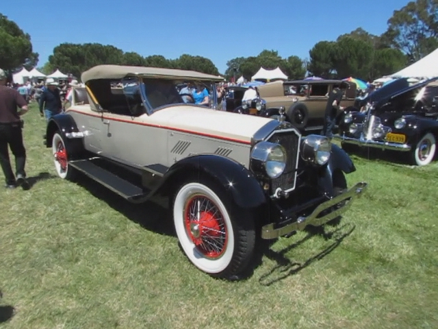 1928 Stearns-Knight F-85 Roadster6 cylinder Stearns Knight sleeve valve engine Marin-Sonoma Concours d'Elegance 2012